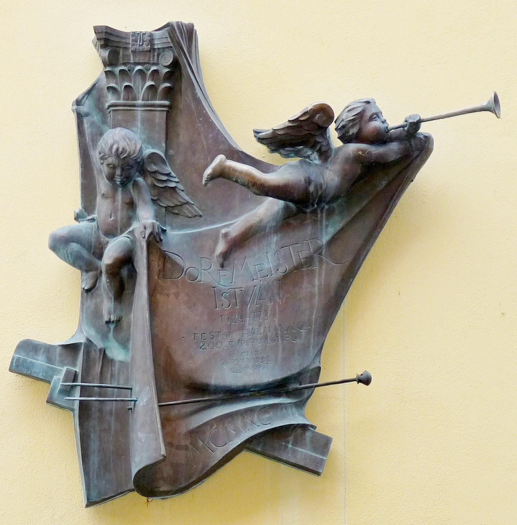 Commemorative plaque to Mr. István Dorfmeister (1729-1797), Hungarian painter placed on the wall of a church in the lane which bears the name of the artist. Author of the bronz relief is Mr. Tamás Soltra E. (1997). (Sopron, Dorfmeister Street)